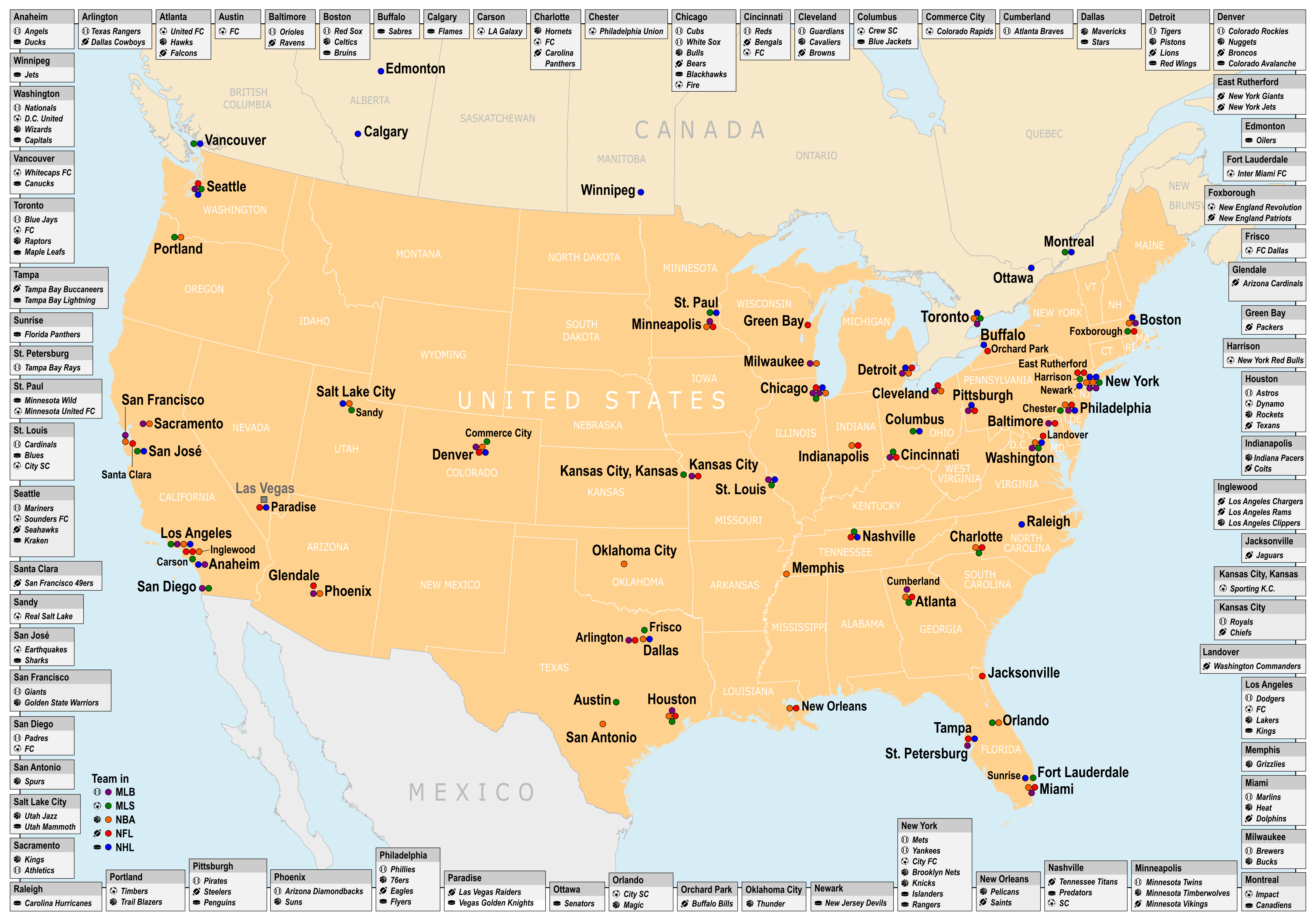 Map of Cities in the United States and Canada with at least one team in the MLB, MLS, NBA, NFL or NHL, June 2018